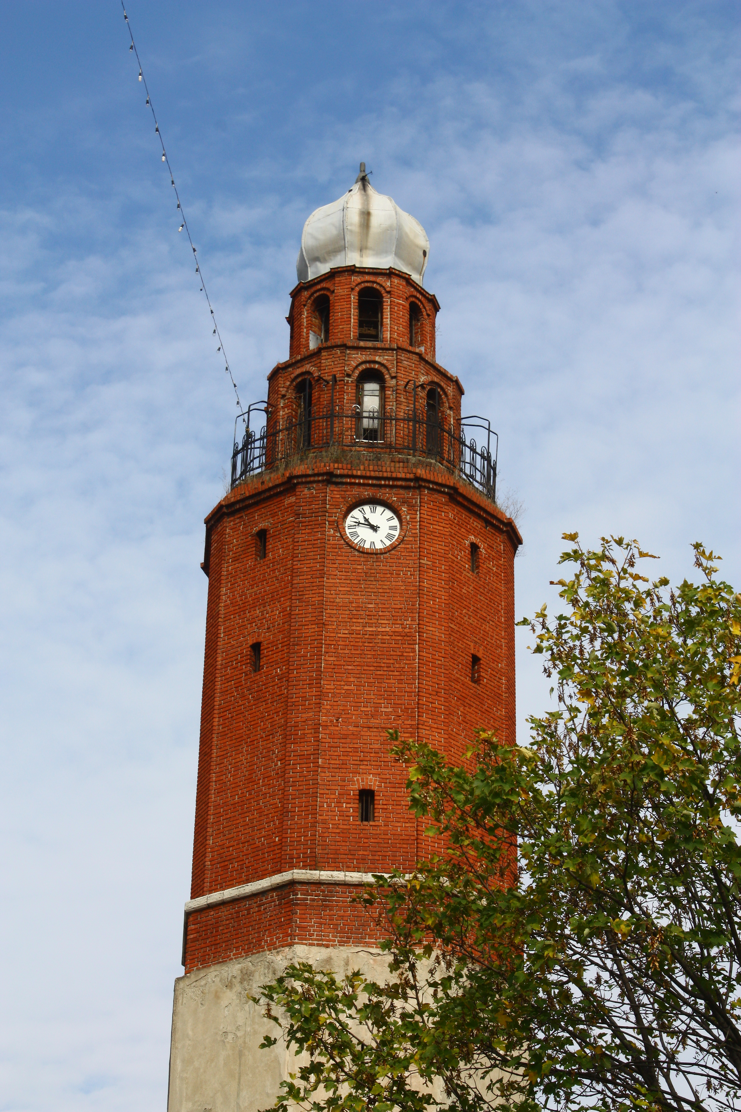 Clock Tower - Sultan Murat Mosque Macedonia Ова е фотографија на споменик на културата во Македонија со типски код: А02This is a a photo of a cultural monument in North Macedonia with type id: А02